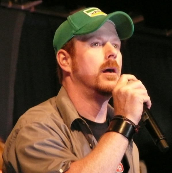 John DiMaggio (Bender)